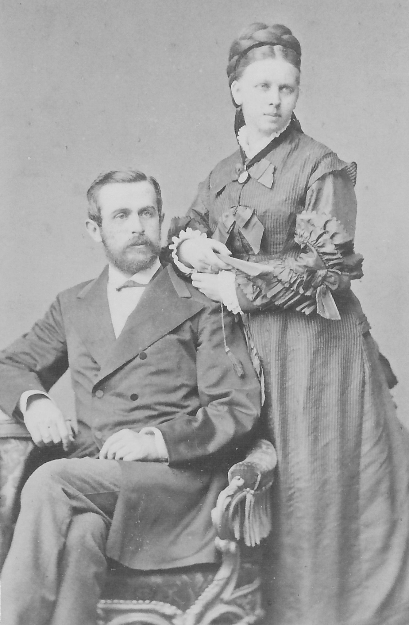 Johann Peter Eduard Ley & Eva Aurnhammer